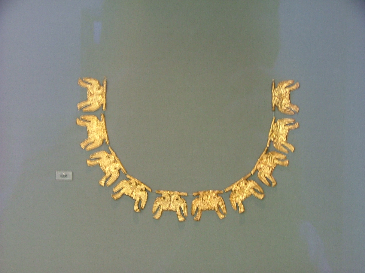 Gold funerary breastplate. It's decorated with repoussé spirals. Two repoussé circles indicate the nipples. These breastplates are reminiscent of the luxurious Pharaonic Egyptian burials, where the mummified bodies were covered entirely with gold. Grave V, Grave Circle A, Mycenae, 16th century BC. Number 625 in the catalogue of National Archaeological Museum in Athens.